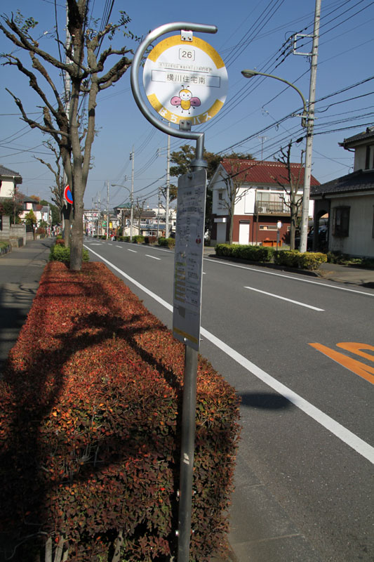 Bus stop of Hachioji City Circulation Bus "Hachibus" at Yokokawa-Jutaku-Minami, Hachioji, Tokyo, Japan